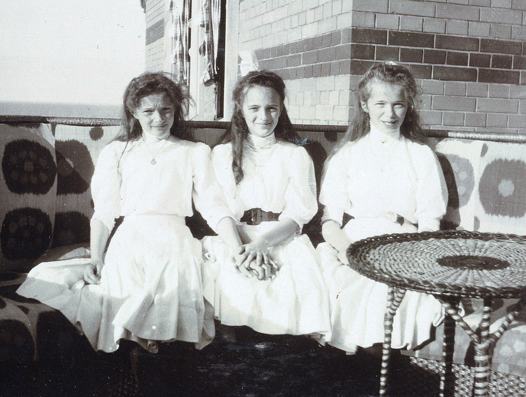 This photo of Grand Duchesses Olga and Tatiana Nikolaevna of Russia and their cousin Princess Irina of Russia at the Lower dacha in Peterhof was taken in 1909. It was found at , because of its age, I believe it is in the public domain.